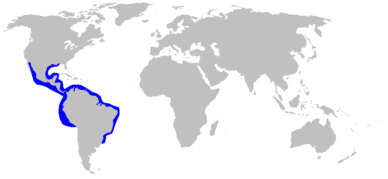 Distribution map for Carcharhinus porosus